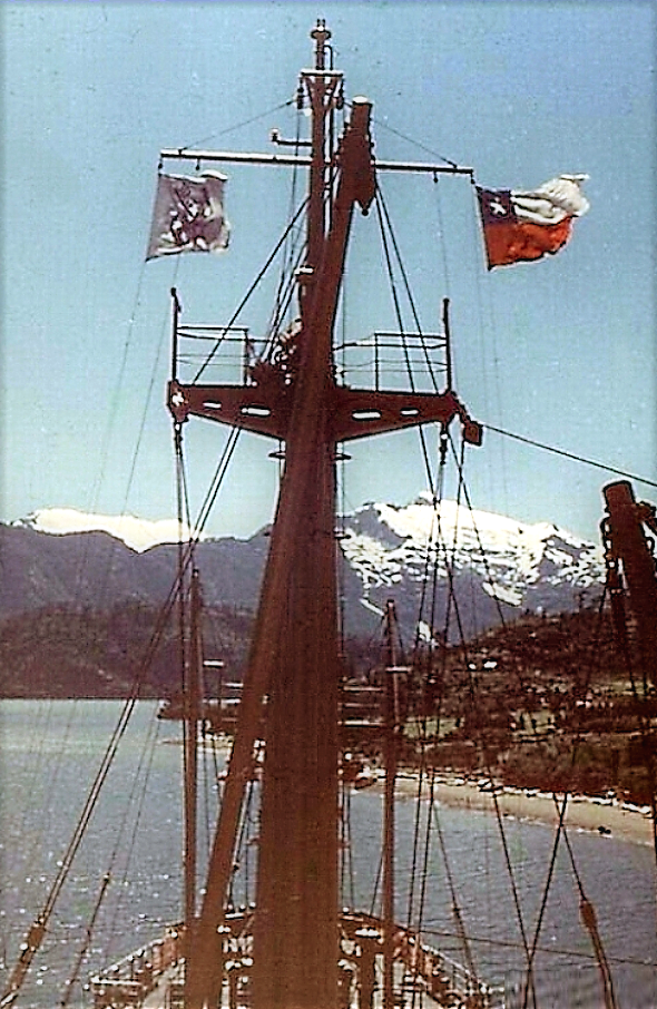 MS LECHSTEIN NDL in the port of Puerto Aisen, West Patagonia 1960